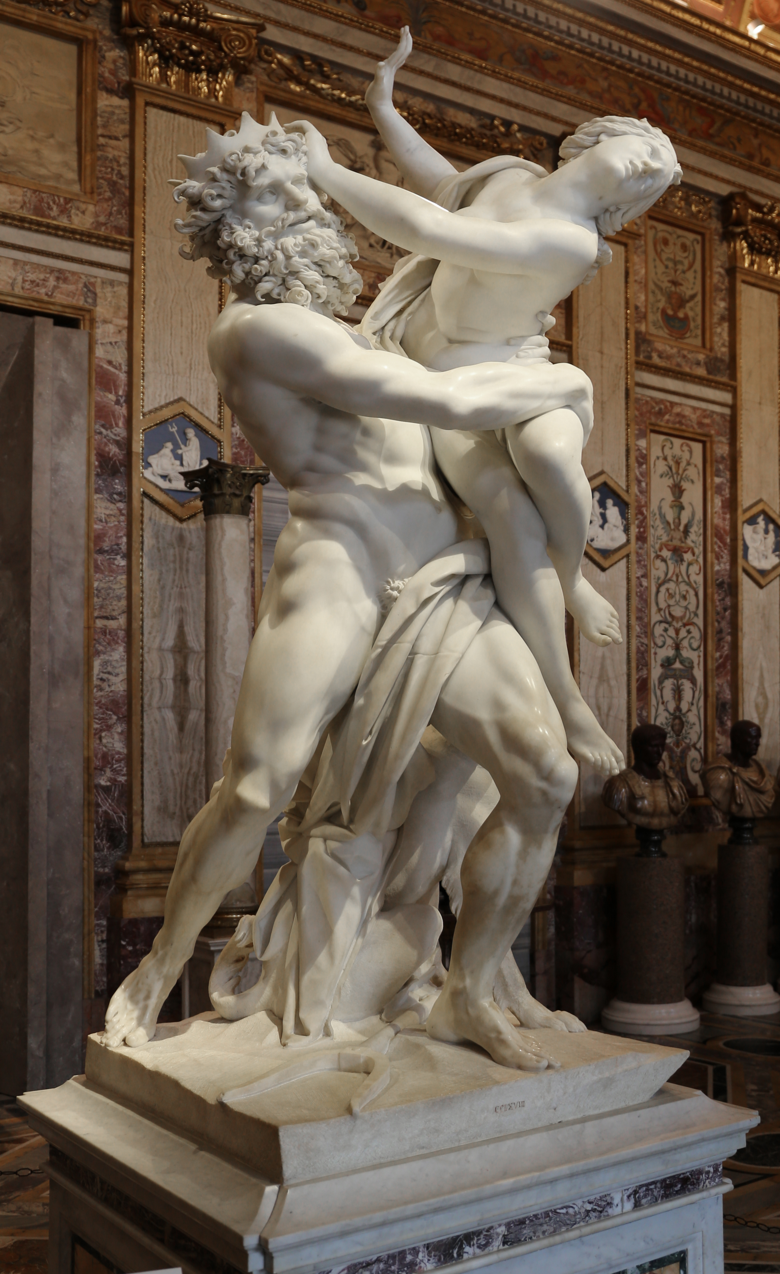 Sculptures in the Galleria Borghese (Rome)